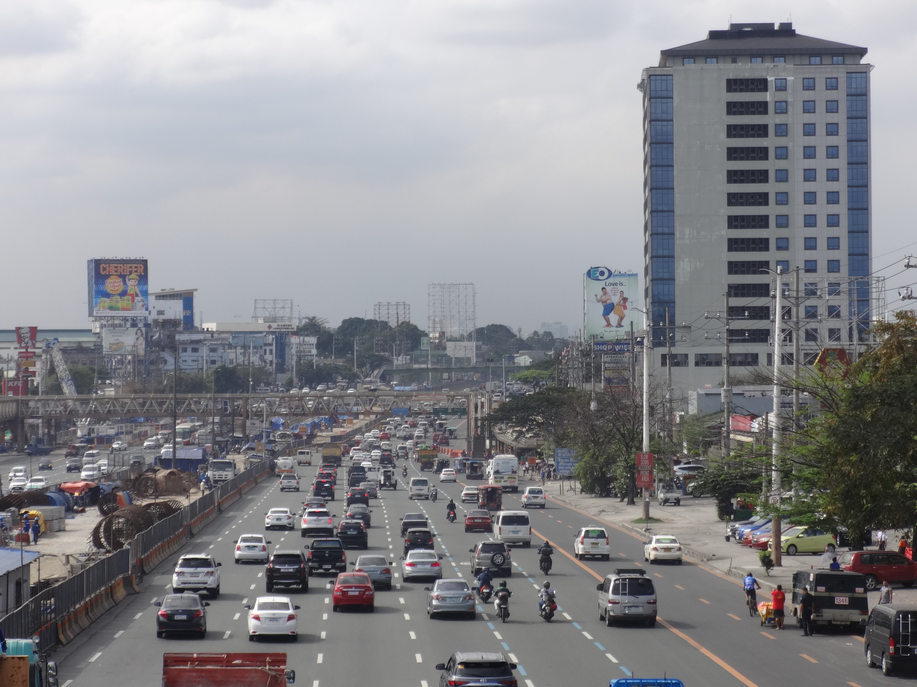 Don Antonio section of Commonwealth Avenue in Quezon City